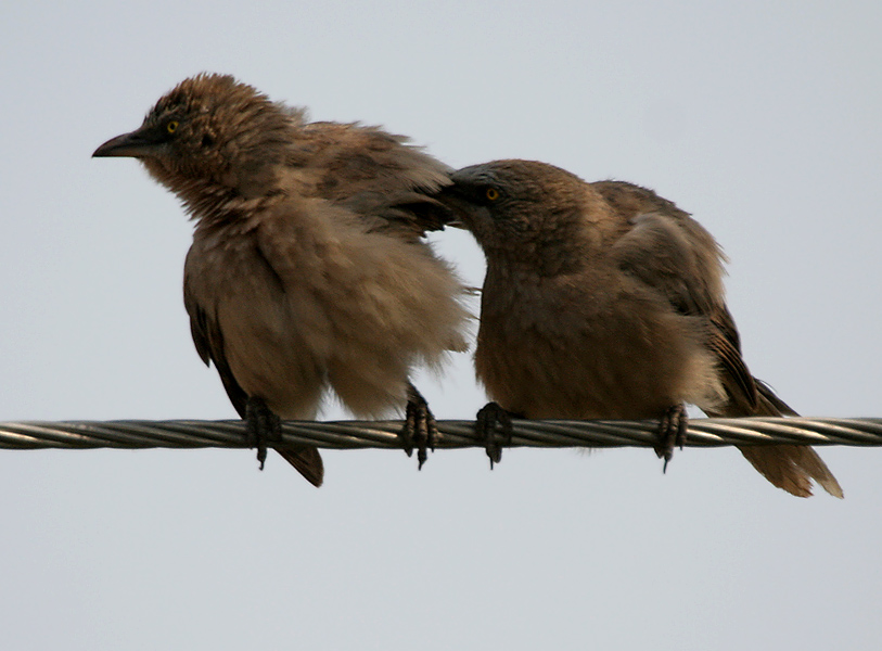 Large Grey Babbler Turdoides malcolmi in Parli, Maharashtra, India.